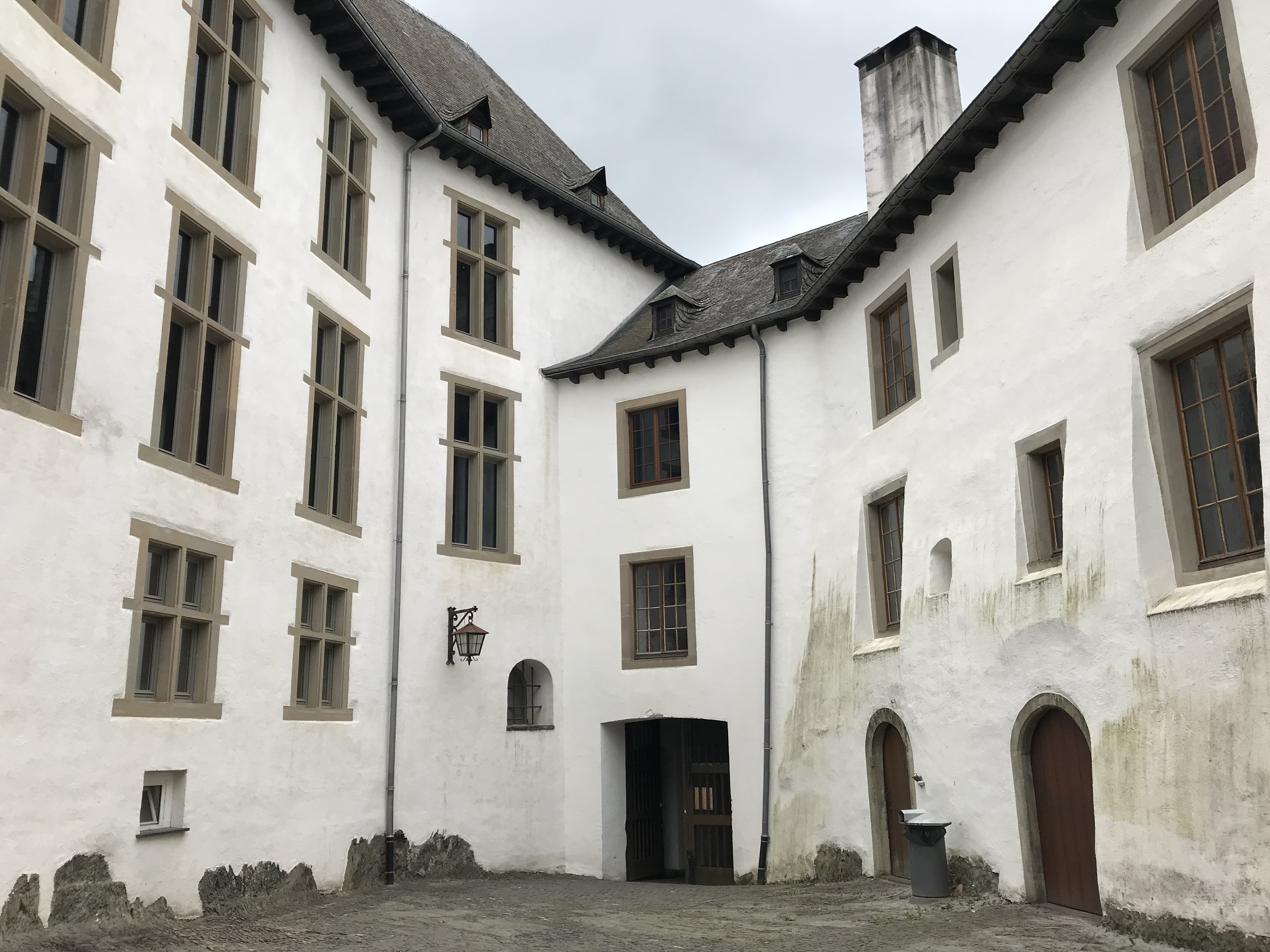 Inner yard of Clervaux Castle, Luxemburg